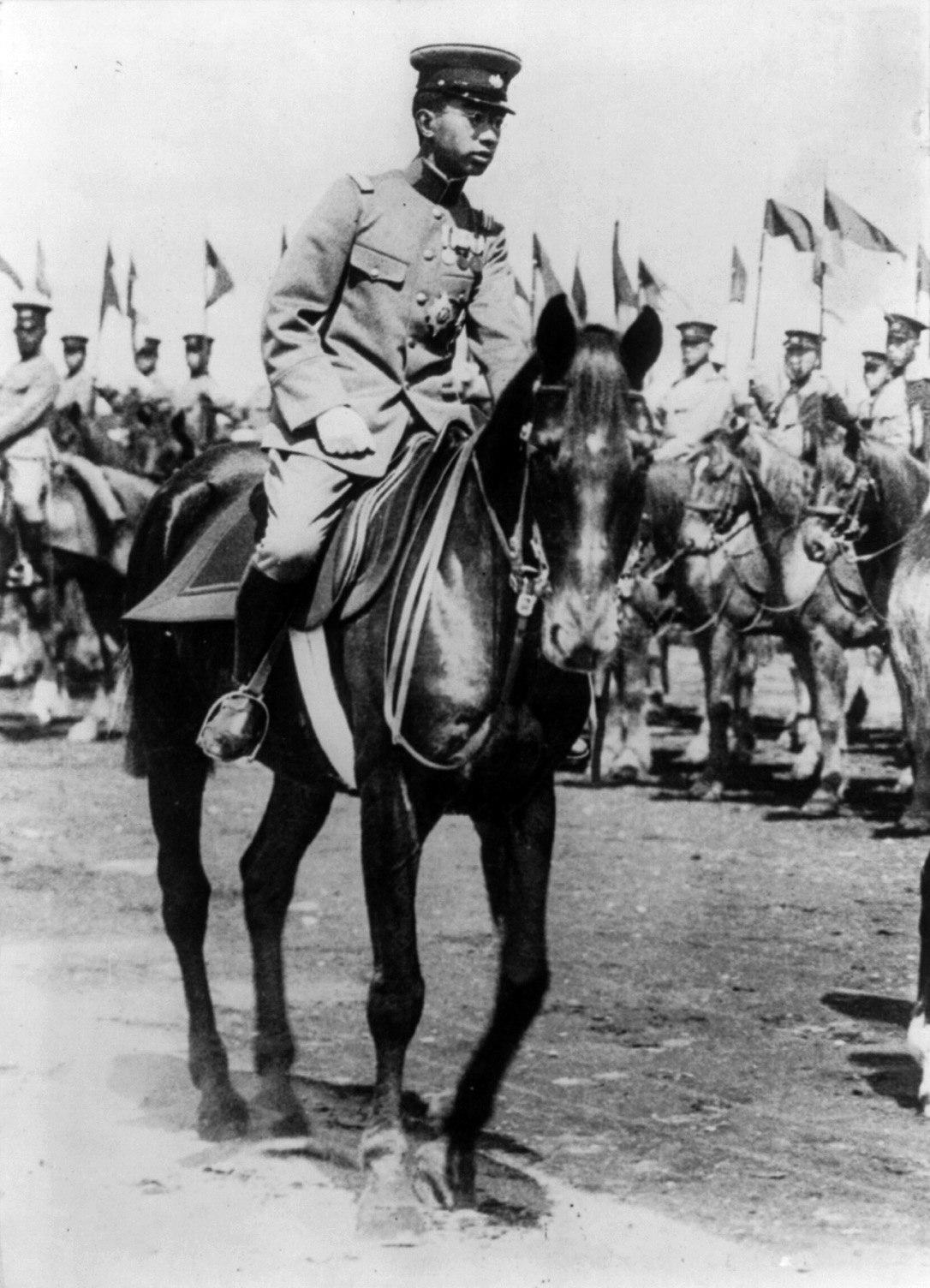 Emperor Hirohito of Japan on horseback in Tokyo